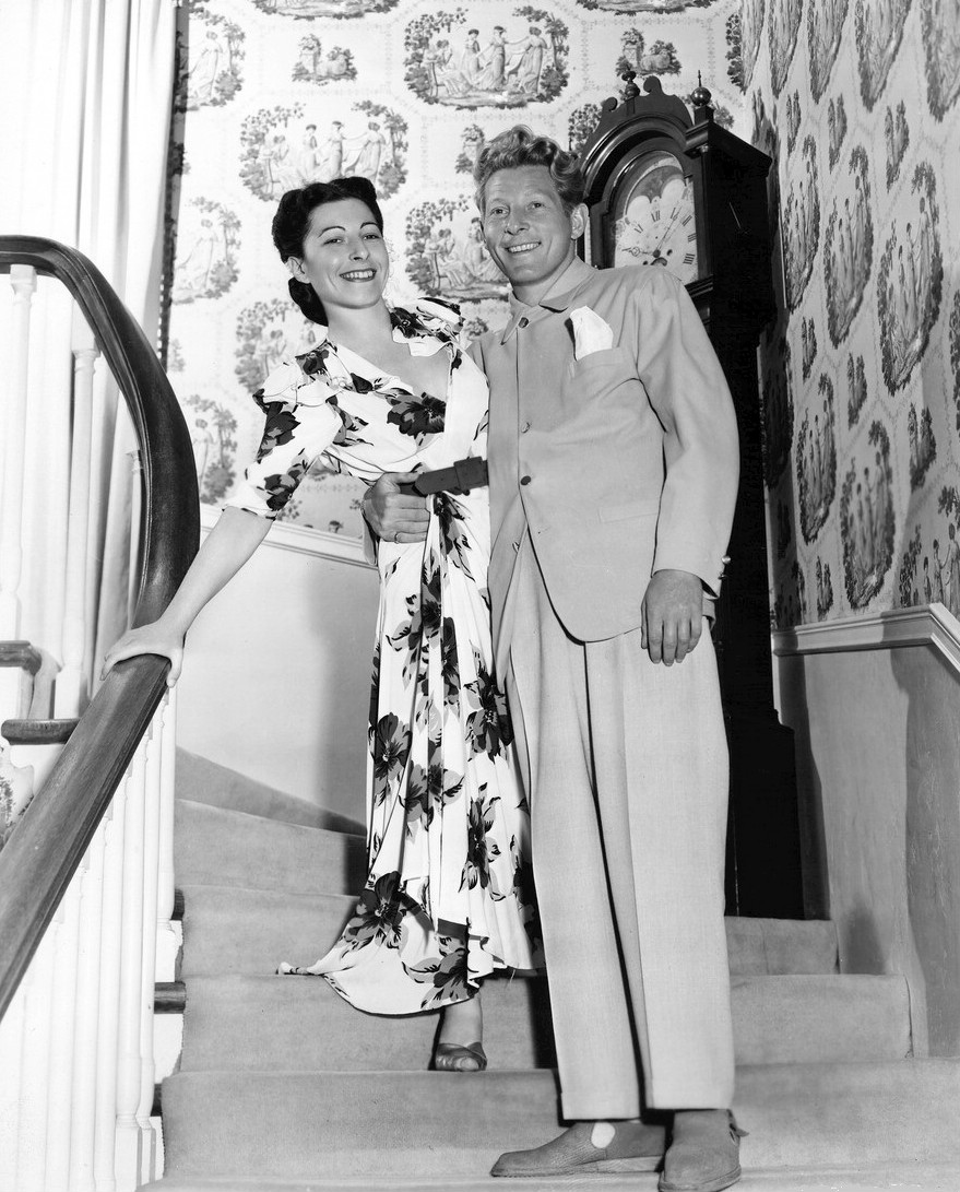 Photo of Sylvia Fine Kaye and Danny Kaye from the December 1945 issue of Tune In.